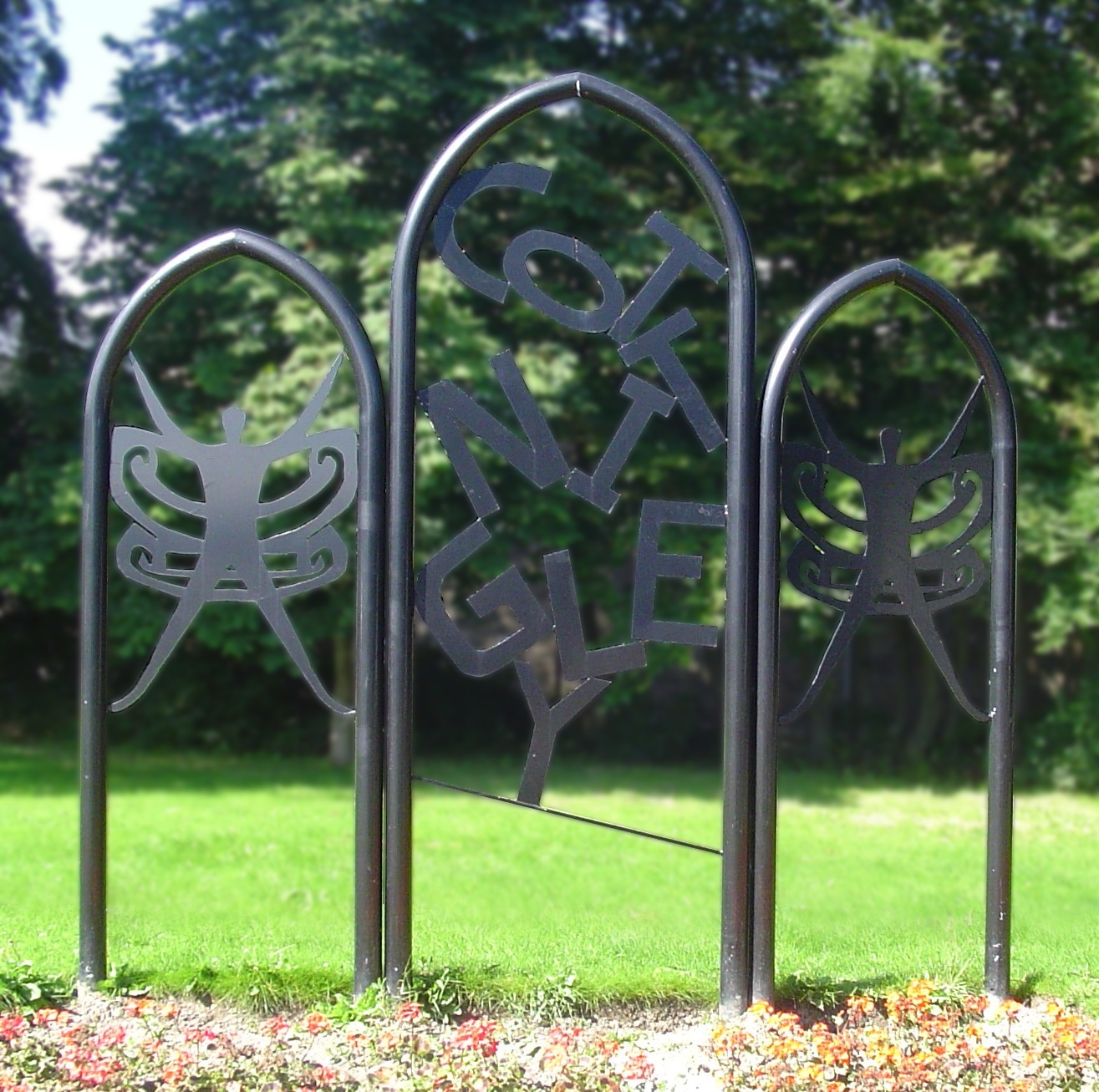 Signpost in Cottingley, near Bradford